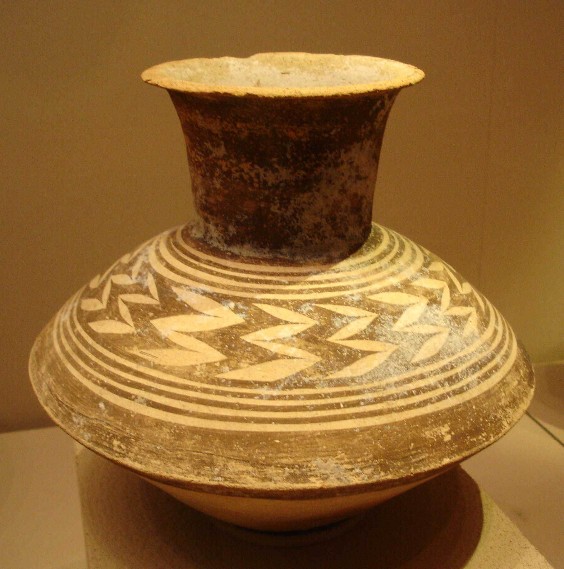 Computer-enhanced photograph of a pottery jar on display in the Museum of Fine Arts, Boston (item number 1986.30), illustrating frieze group "THG". According to the MFA, it is from Southern Iraq in the Late Ubaid period (4500-4000 BC).